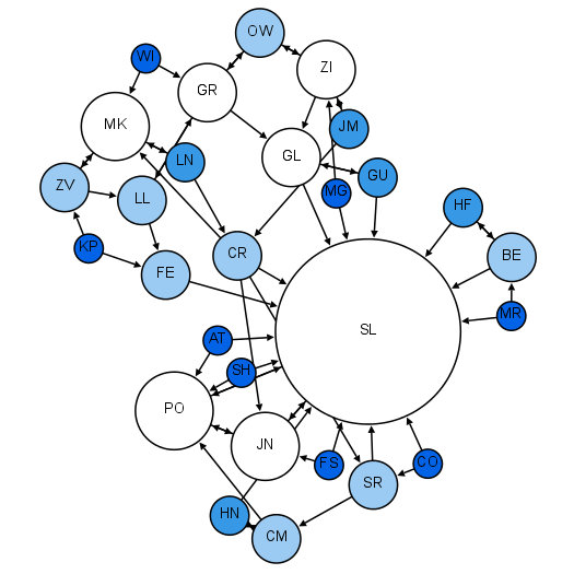 Mapping the social affinities of a group of individuals, Moreno’s first sociograms visualize the relationships between pupils in a classroom: who wants to be sitting next to whom? Each child can choose two others, for results that suggest that sociabilities are changing over time: the proportion of attractions between boys and girls decrease, community structures are formed and then disappear, etc. Source: Grandjean, Martin (2015) Social network analysis and visualization: Moreno’s Sociograms revisited. Caption: Redesigned network strictly based on Moreno (1934), Who Shall Survive. Size and color of the nodes indicating the number of incoming connections ("in-degree" dark blue=0; white=3 and more).